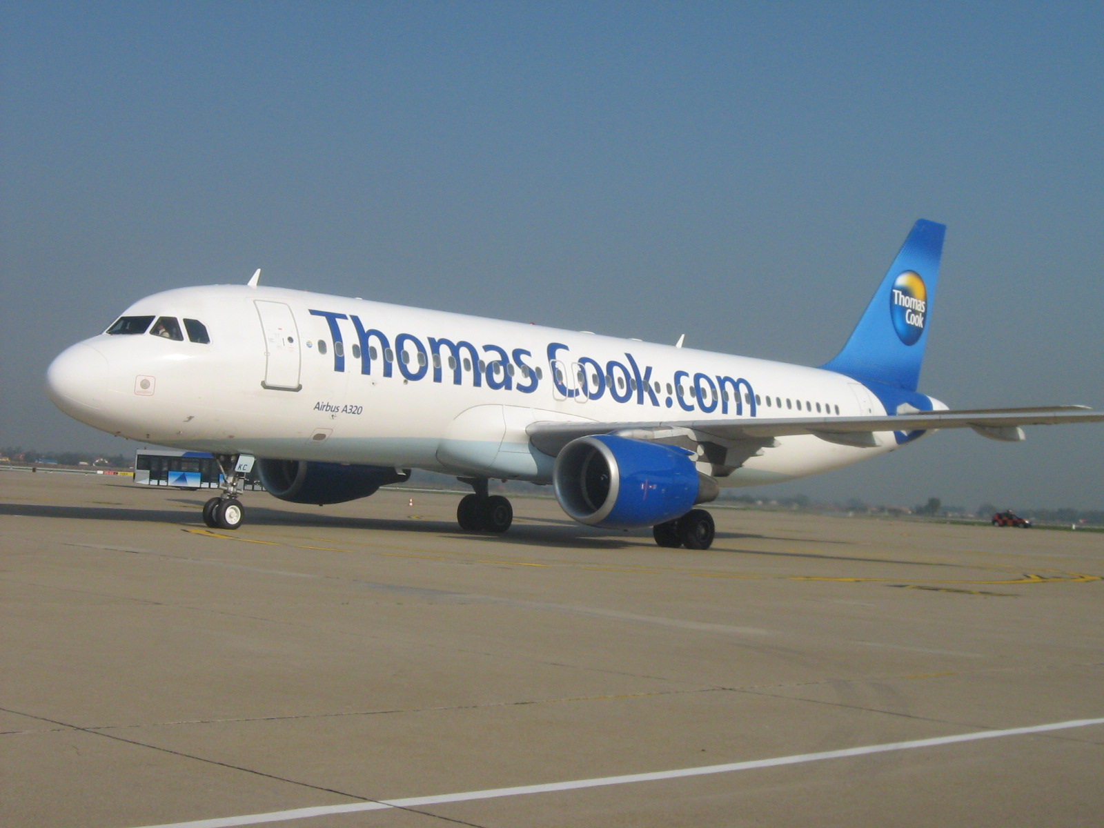 Thomas Cook Airbus A320 G-BXKC on Zag airport